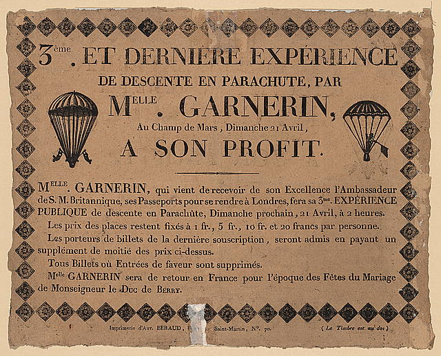 Broadsheet announcing the third parachute jump of Élisa Garnerin